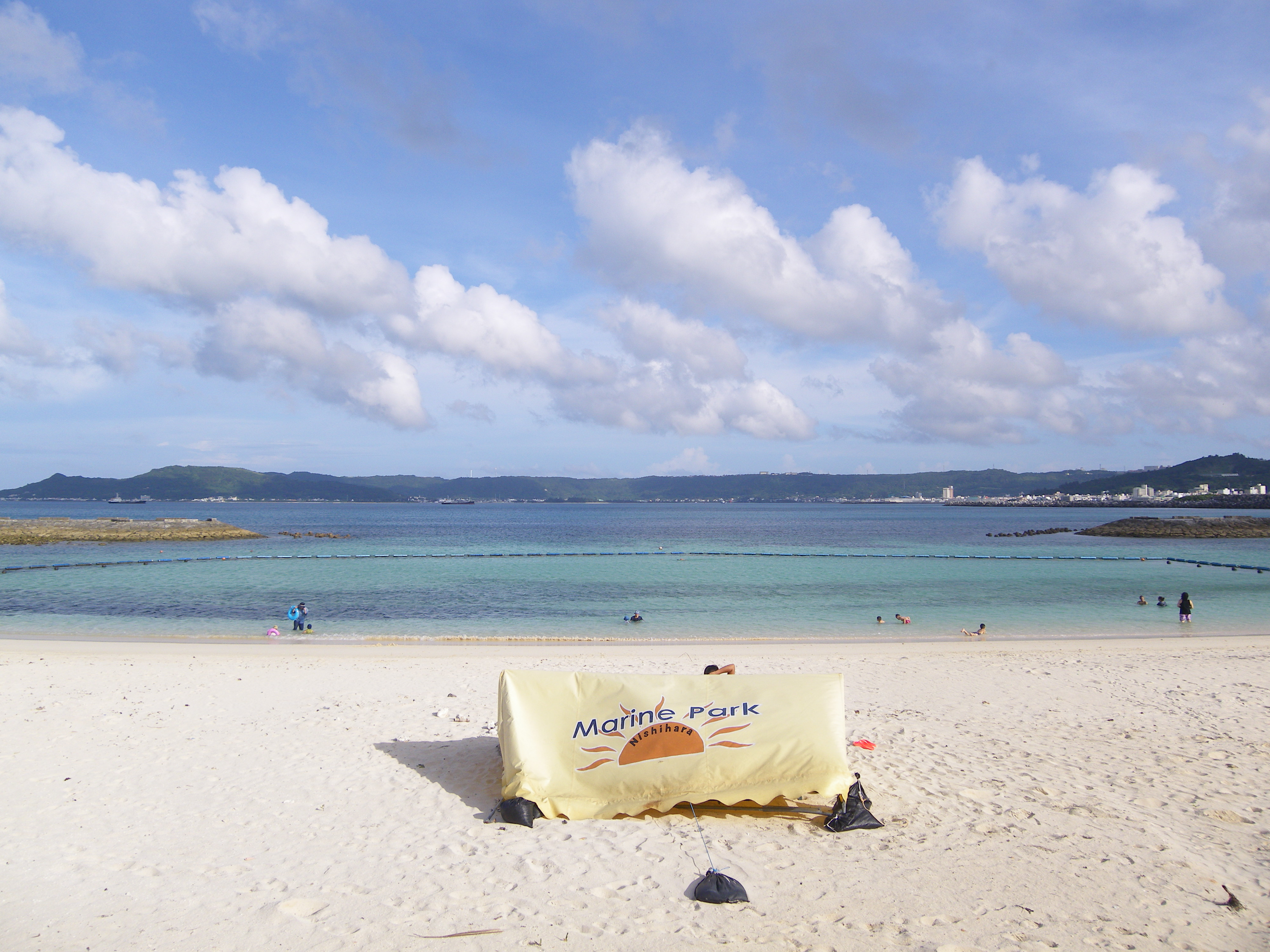 A beach at the Nishihara Marine Park